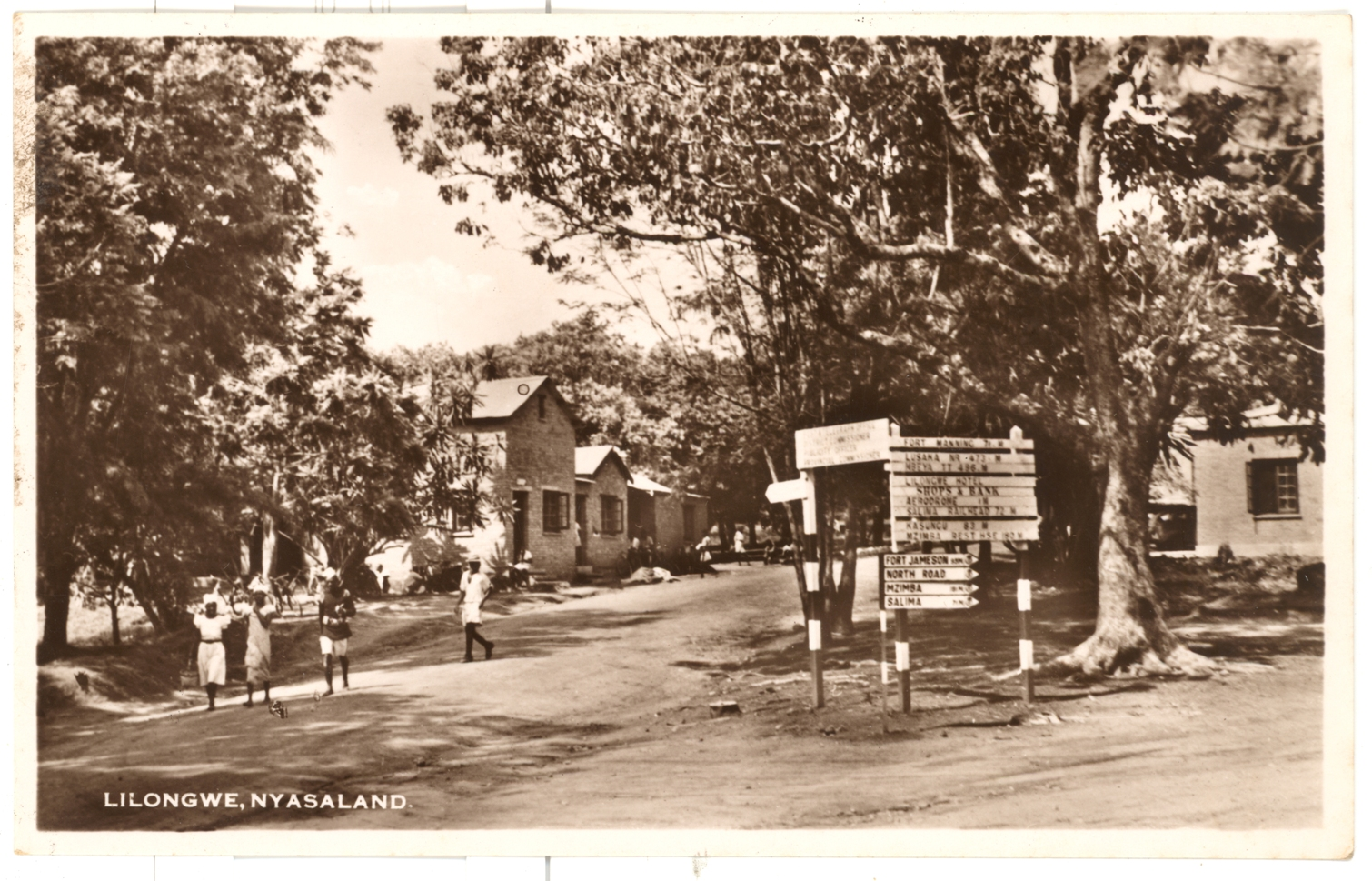 Lilongwe, Nyasaland